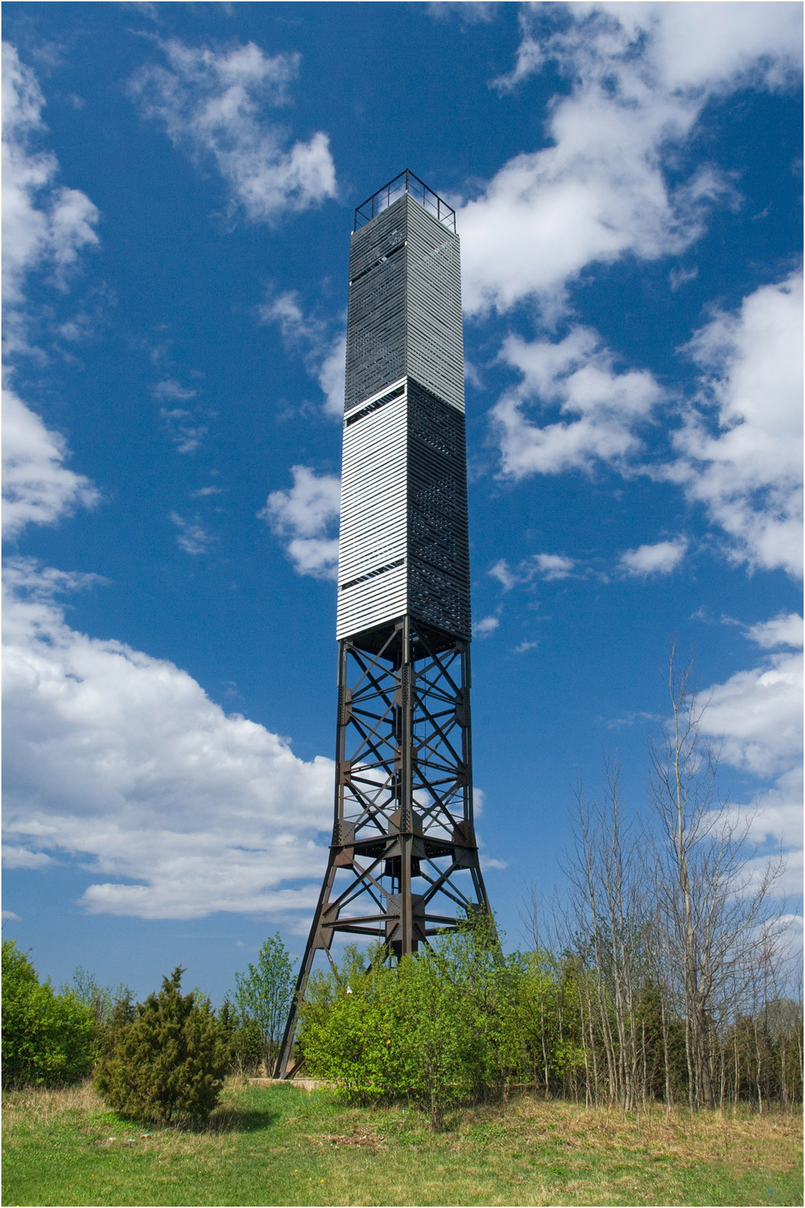 Riguldi daymark